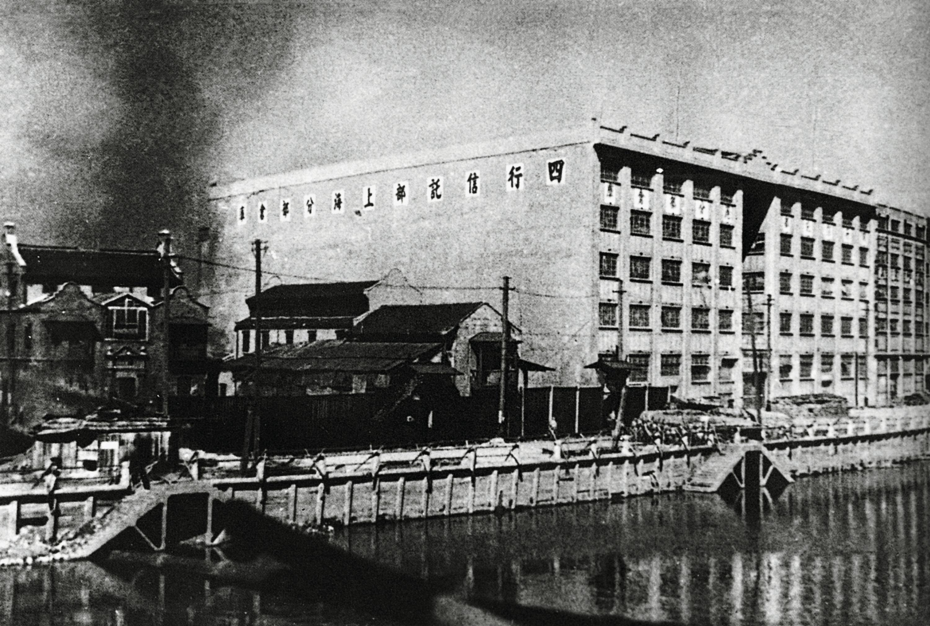 Sihang warehouse under attack from IJA.